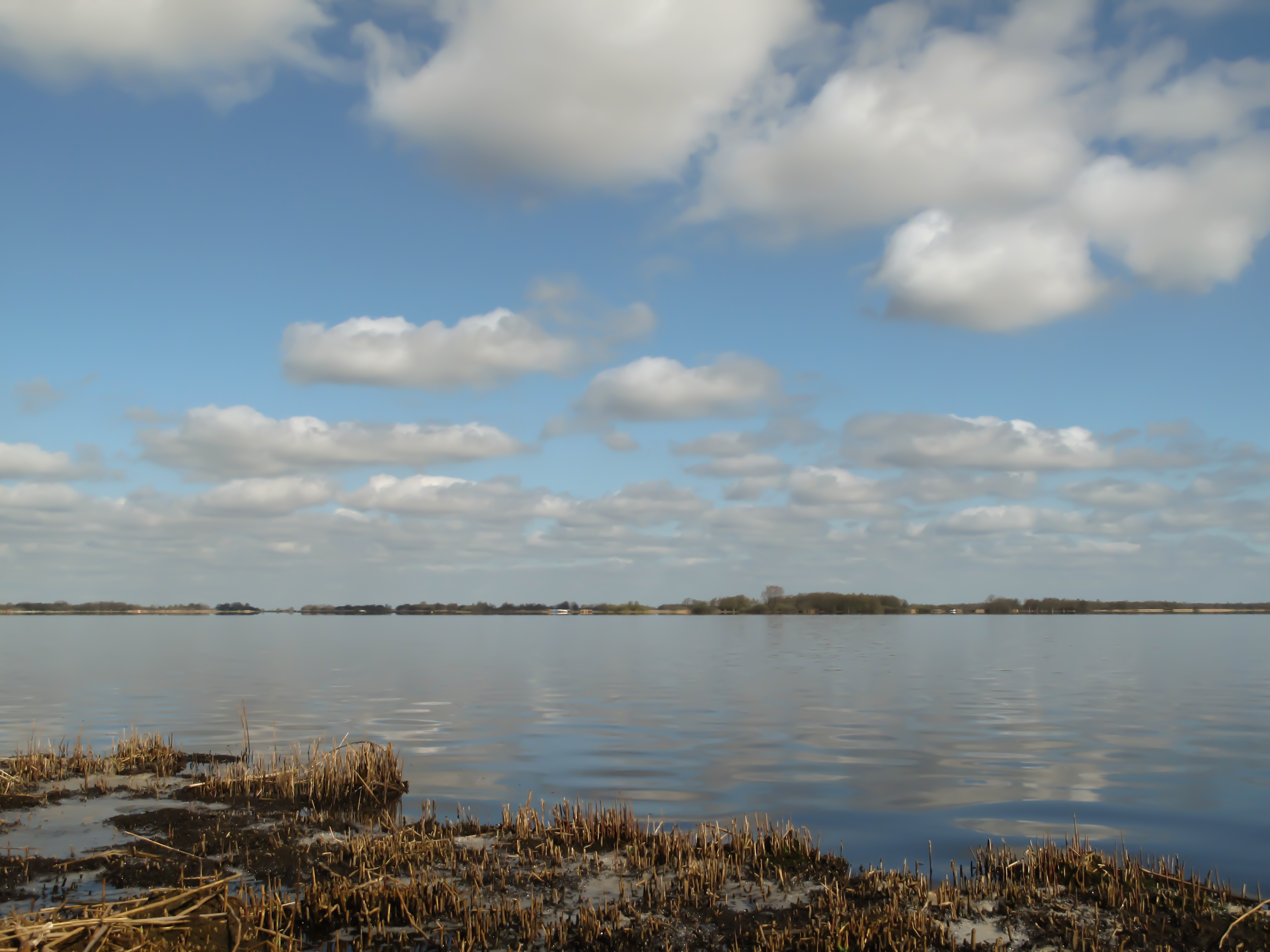 between Sint Jansklooster and Wanneperveen, lake: de Beulakerwijde